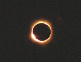 Taken near the end of totality during the December 4 2002 total solar eclipse. The picture was taken near Woomera, South Australia